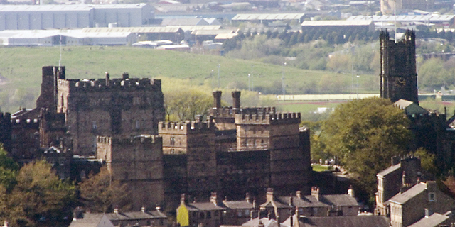 Lancaster Castle and Priory. Taken from the second floor of the Ashton Memorial in Williamson Park, Lancaster